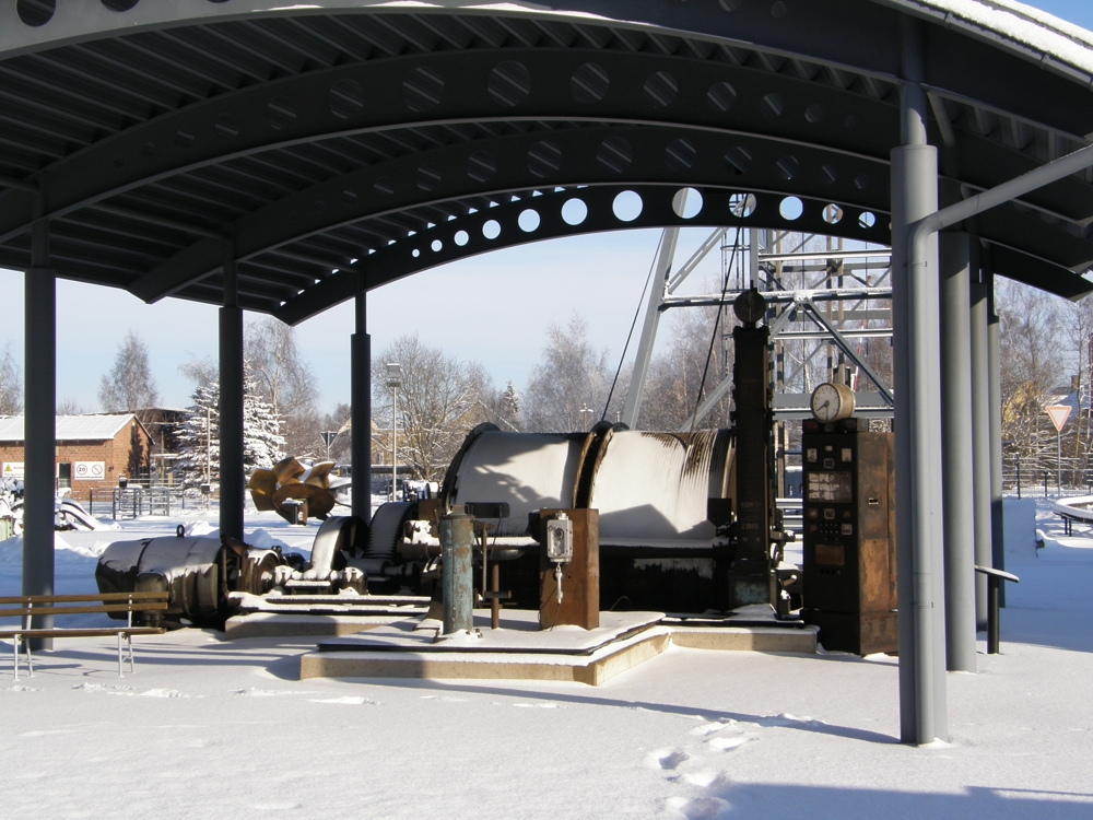 Winding machine of Shaft 2 from the former mine "Willy-Agatz" in Dresden-Gittersee. The mine produced hard coal and uranium. The windingmachine is now located at the mining museum Oelsnitz/Erzgeb. Trommelfoerdermaschine von Schacht 2 des ehemaligen Bergbaubetriebes "Willy Agatz" an ihrem neuen Standort am Bergbaumuseum Oelsnitz/Erzgebirge.